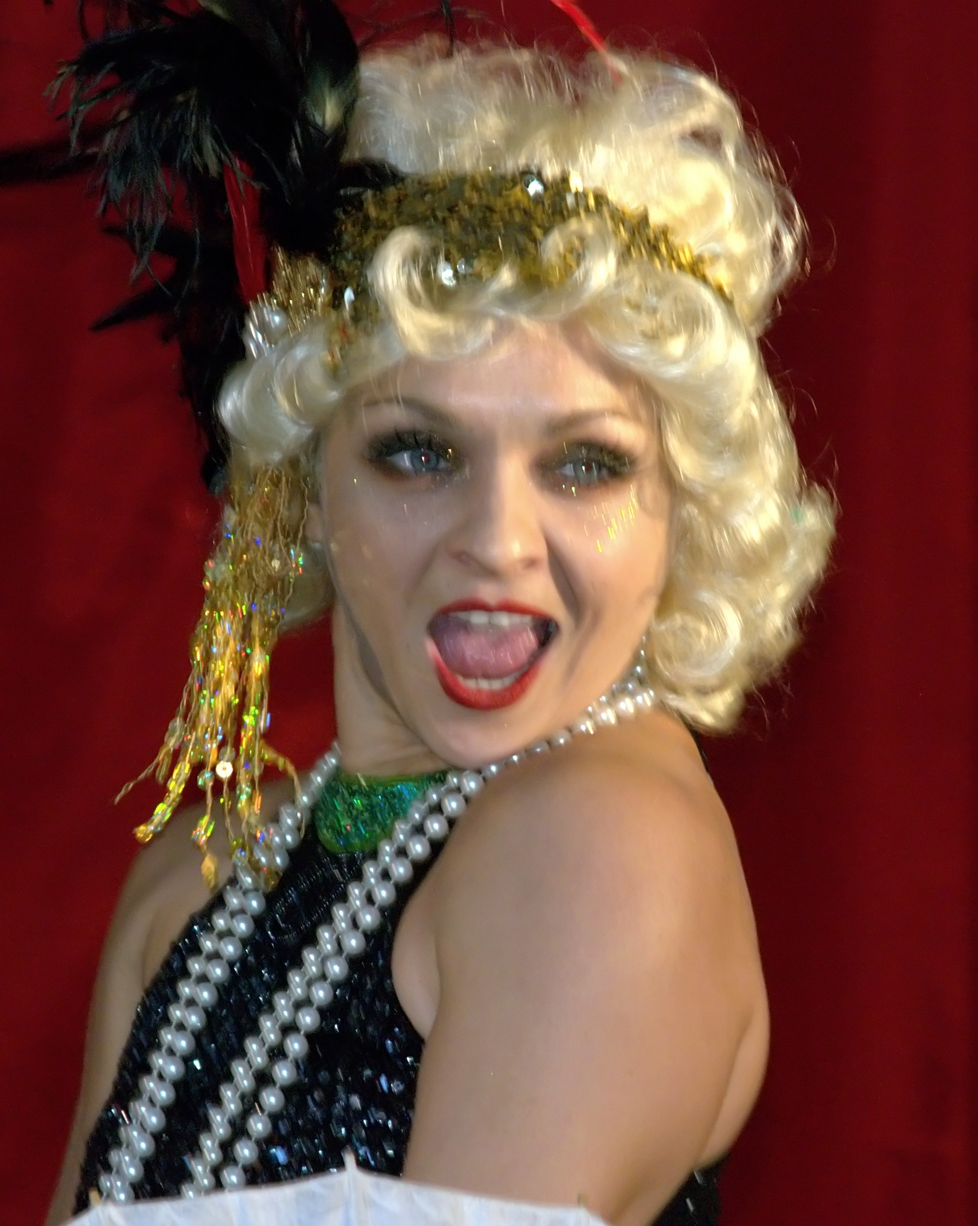 Burlesque star Julie Atlas Muz at the 2009 HOWL! Festival in New York City's East Village. Photographer's blog post about the photo and event.